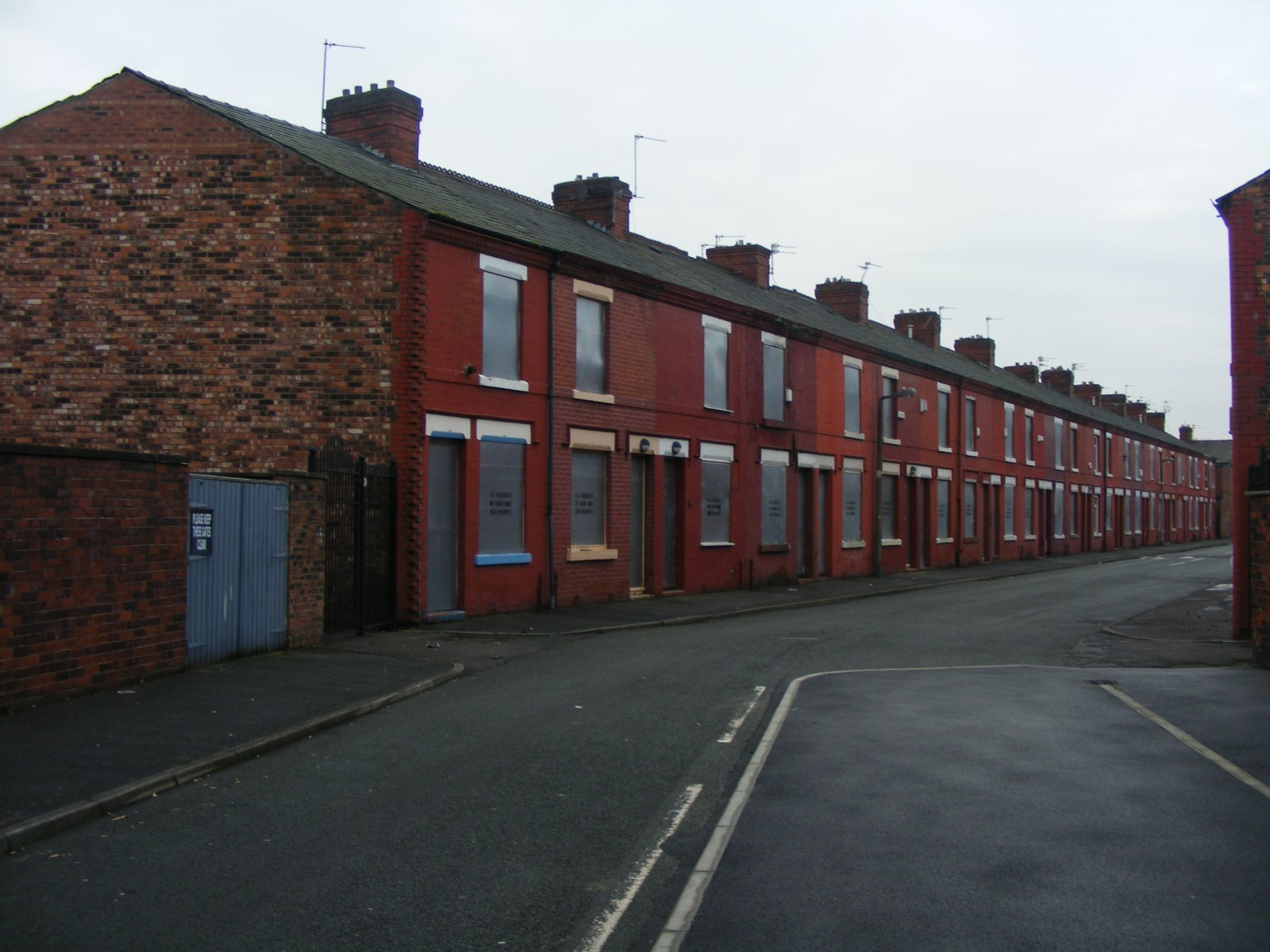 Boarded up houses on Thursfield Street, Salford